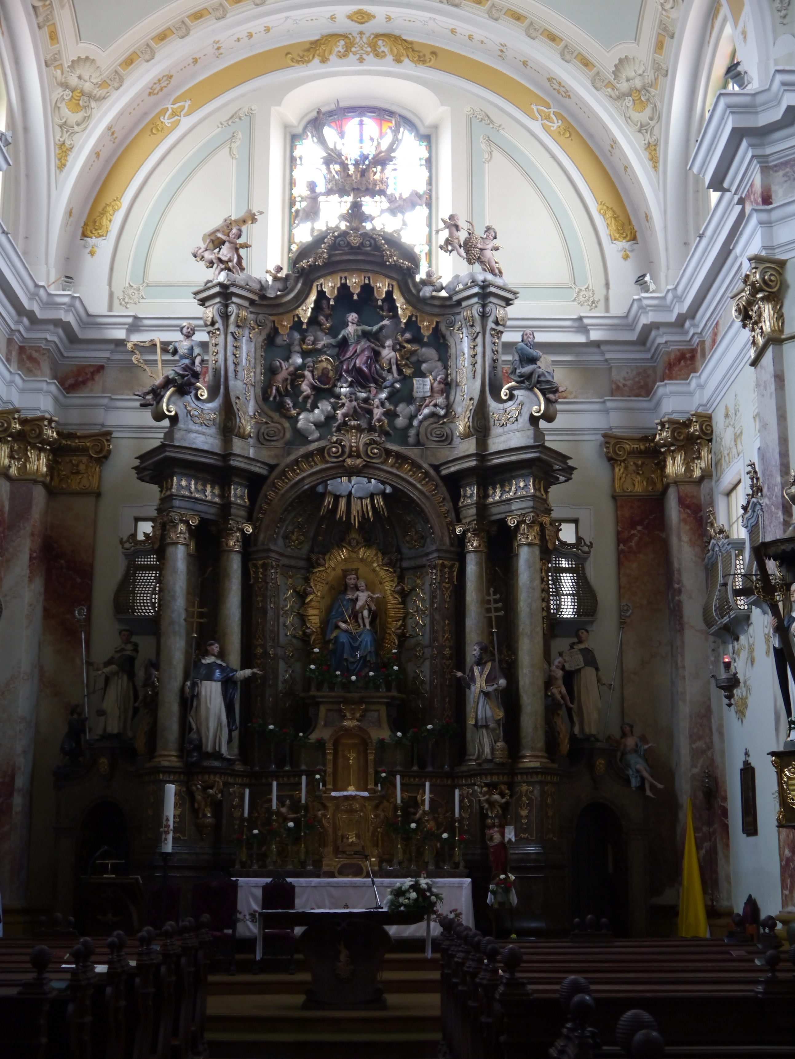 High Altar of St. Jude Thaddeus, Sopron, Western Hungary